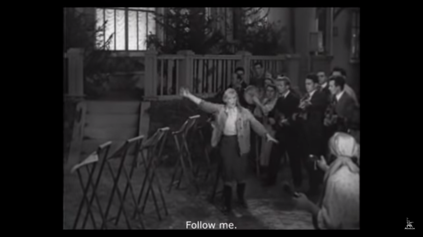 Screenshot from Volga-Volga (1938) - 34:11 taken from